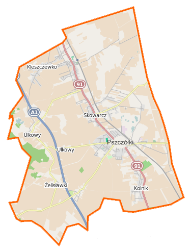 Map of Gmina Pszczółki, Poland This map of Pszczółki (gmina) was created from OpenStreetMap project data, collected by the community. This map may be incomplete, and may contain errors. Don't rely solely on it for navigation.